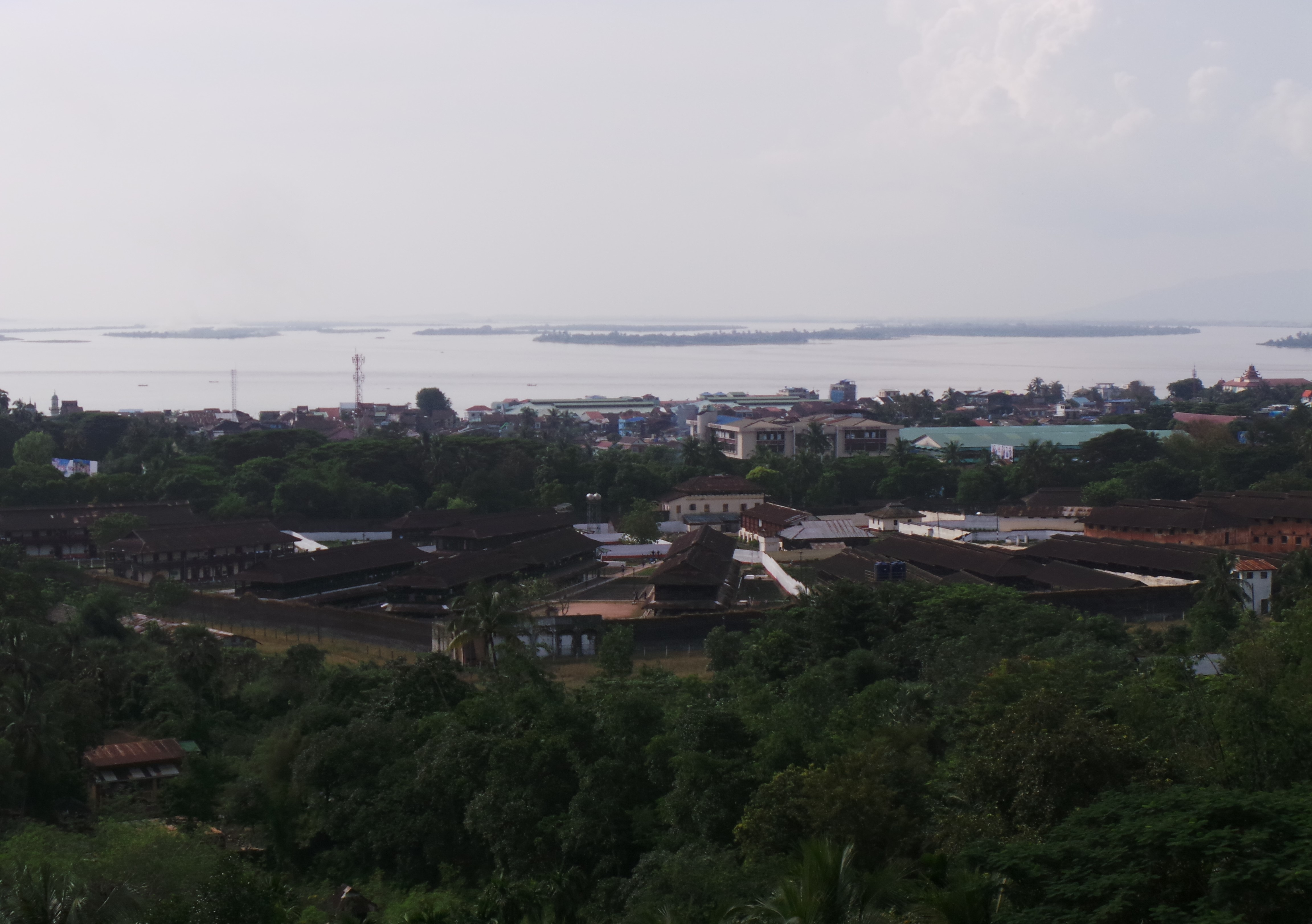 Mawlamyine Prison viewed from Kyaik Than Lan Pagoda မြန်မာဘာသာ: မော်လမြိုင်အကျဉ်ထောင်အား ကျိုက်သံလန်ဘုရားမှ မြင်ရပုံ